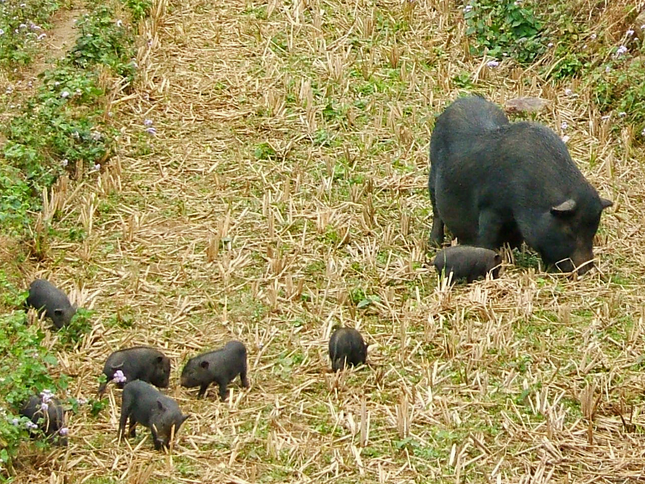 Lợn ỉ (Vietnamese Pot-bellied) pigs on rice terraces in Sa Pa District, Lào Cai Province, Vietnam